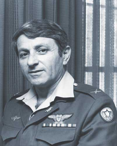 IAF Brigadier General Lazarson Yeshayah, Air gunner.